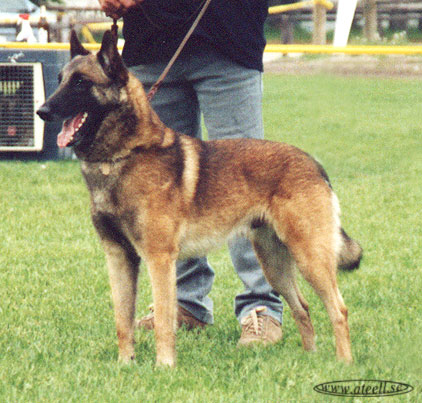 Malinois Yuppie Hameau St.Blaise